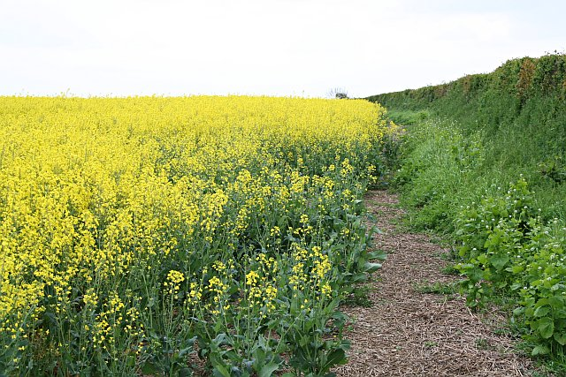 A Field of Oilseed Rape. The bright yellow flowers of Oilseed Rape have become a common sight in arable areas in the spring. As well as providing vegetable oil, this crop makes a good 'break crop', improving the soil for wheat or barley in the following years. Oilseed Rape cannot be grown frequently in any field due to the build up of diseases in the soil. This may change however if farmers are allowed to plant disease resistant genetically engineered crops.